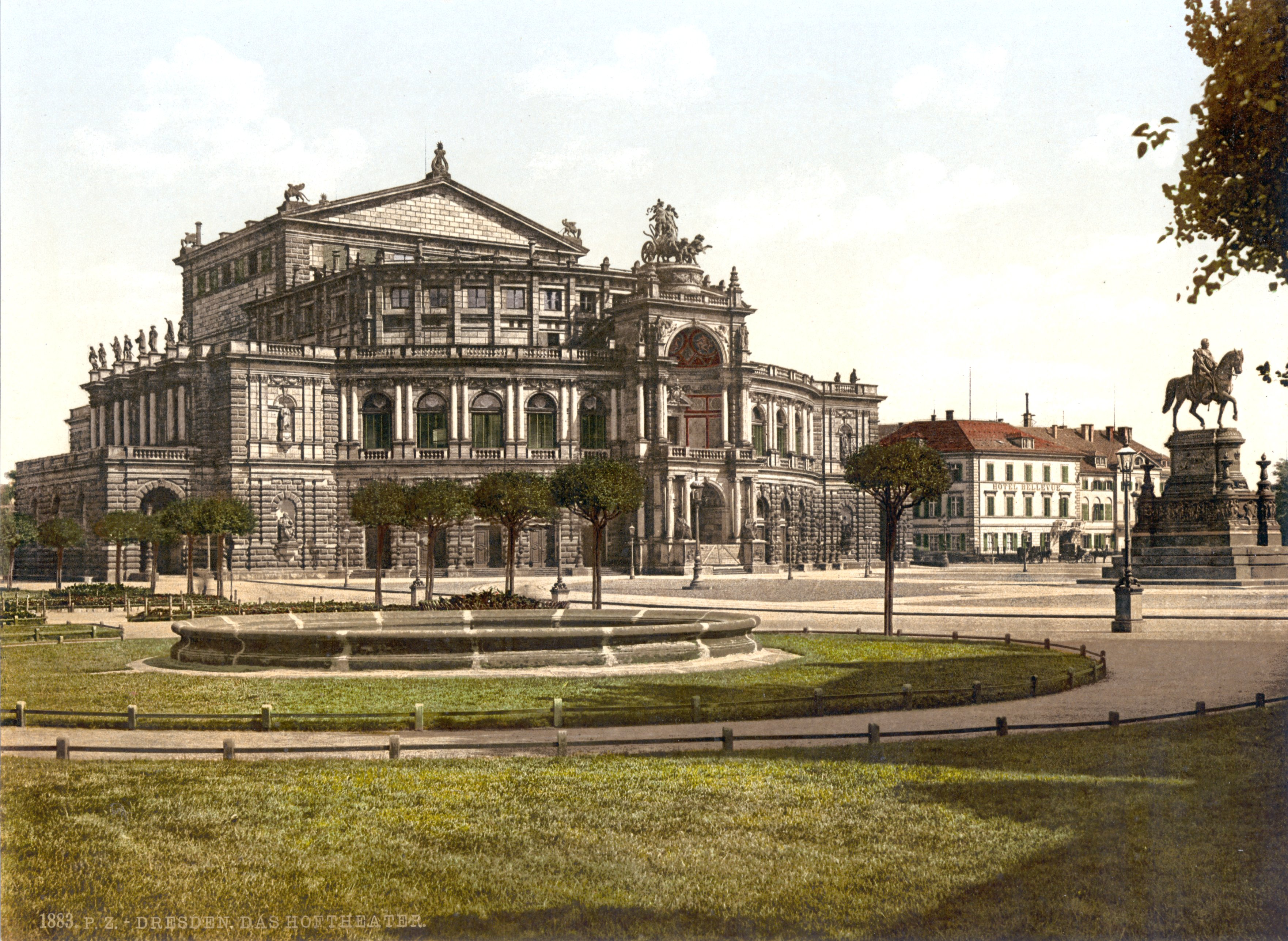 Dresden (Saxony, Germany) — Semperoper around 1900